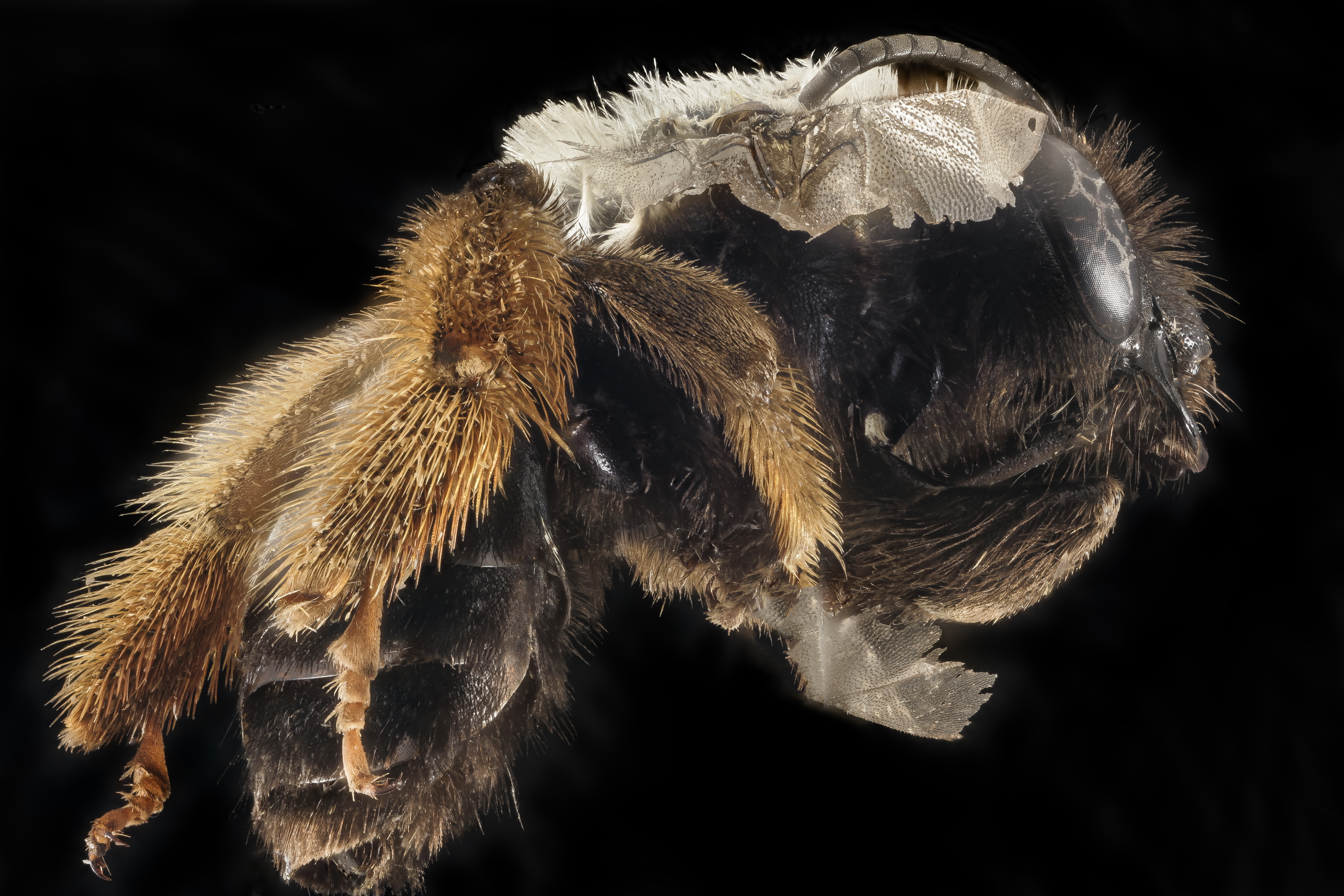 A rather dirty western Eucera fulvitarsis from Fossil Butte National Monument. Nice combination of blacks and ochers. Hopefully we will get a better specimens at some point. Photo by Maggie Yuan. 18:12, 17 April 2017 (UTC)18:12, 17 April 2017 (UTC) 0 18:12, 17 April 2017 (UTC)18:12, 17 April 2017 (UTC) All photographs are public domain, feel free to download and use as you wish. Photography Information: Canon Mark II 5D, Zerene Stacker, Stackshot Sled, 65mm Canon MP-E 1-5X macro lens, Twin Macro Flash in Styrofoam Cooler, F5.0, ISO 100, Shutter Speed 200 Beauty is truth, truth beauty - that is all Ye know on earth and all ye need to know " Ode on a Grecian Urn" John Keats You can also follow us on Instagram - account = USGSBIML Want some Useful Links to the Techniques We Use? Well now here you go Citizen: Art Photo Book: Bees: An Up-Close Look at Pollinators Around the World Basic USGSBIML set up: USGSBIML Photoshopping Technique: Note that we now have added using the burn tool at 50% opacity set to shadows to clean up the halos that bleed into the black background from "hot" color sections of the picture. PDF of Basic USGSBIML Photography Set Up: ftp://ftpext.usgs.gov/pub/er/md/laurel/Droege/How%20to%20Take%20MacroPhotographs%20of%20Insects%20BIML%20Lab2.pdf Google Hangout Demonstration of Techniques: or Excellent Technical Form on Stacking: Contact information: Sam Droege 301 497 5840